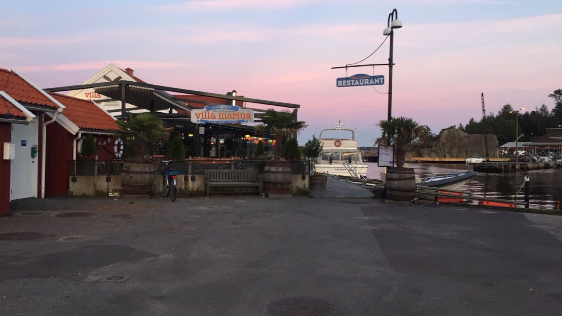 Kristiansand Marina